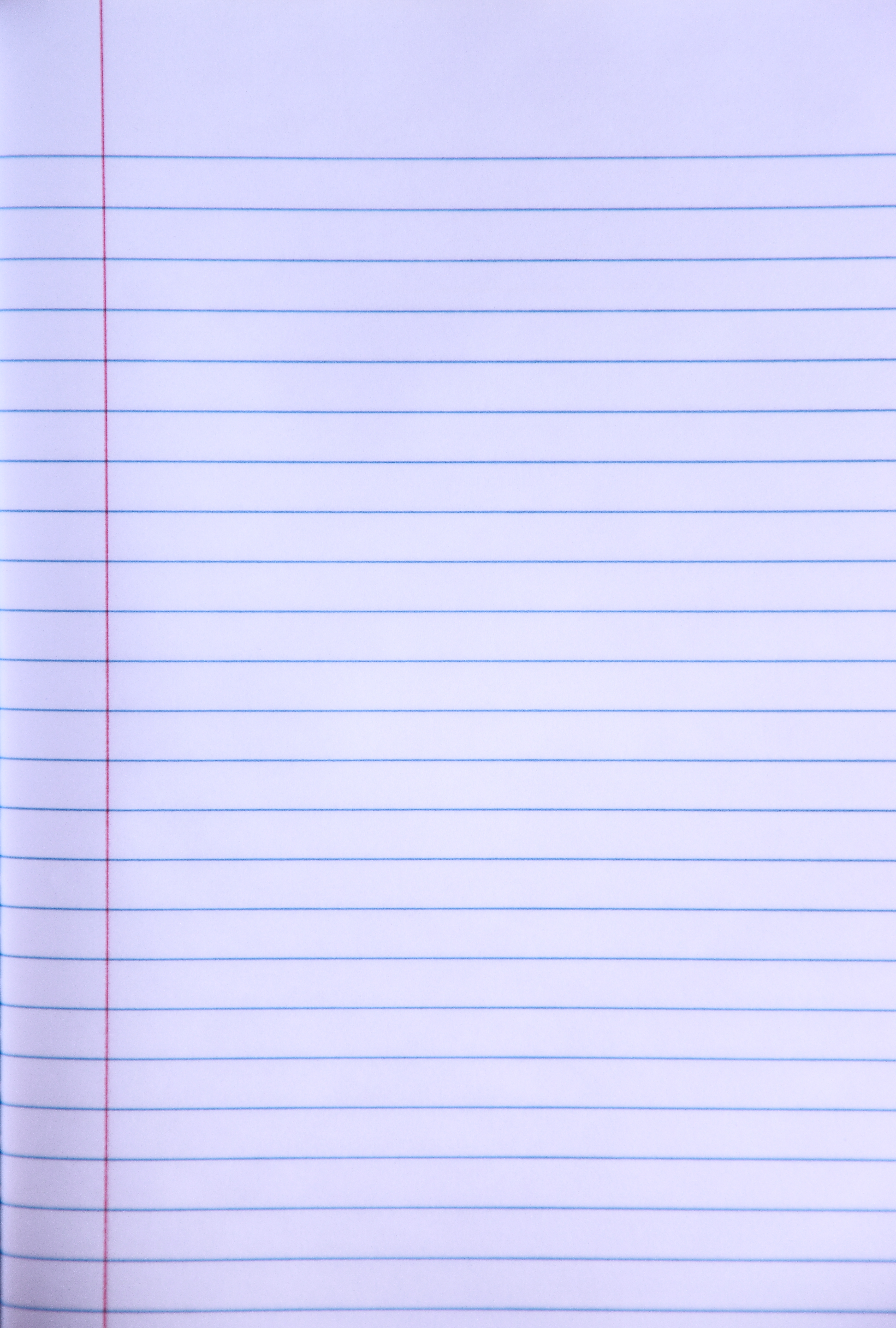 free for use My photos that have a creative commons license and are free for everyone to download, edit, alter and use as long as you give me, "D Sharon Pruitt" credit as the original owner of the photo. Have fun and enjoy